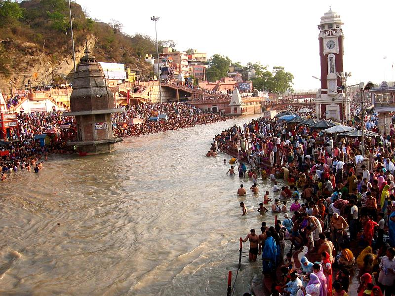 just like coney island @ har ki pauri ghat Ganga Dashara Festival Ganga Dashara, the most ancient river festival in existence, occurs on the dashmi or tenth tithi of the Hindu lunar month of Jyestha during Shukla Paksha or the bright fortnight. For public participation, when it falls on week days, it is celebrated on the Sunday after. The festival celebrates the coming of the Holy Ganga from the celestial regions to the Earth. Thus, it is a celebration of purity, environment and family.